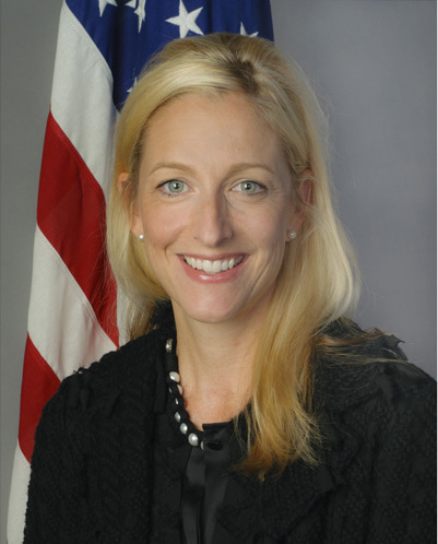 Official US State Department Photo of Ambassador Alexa Wesner.